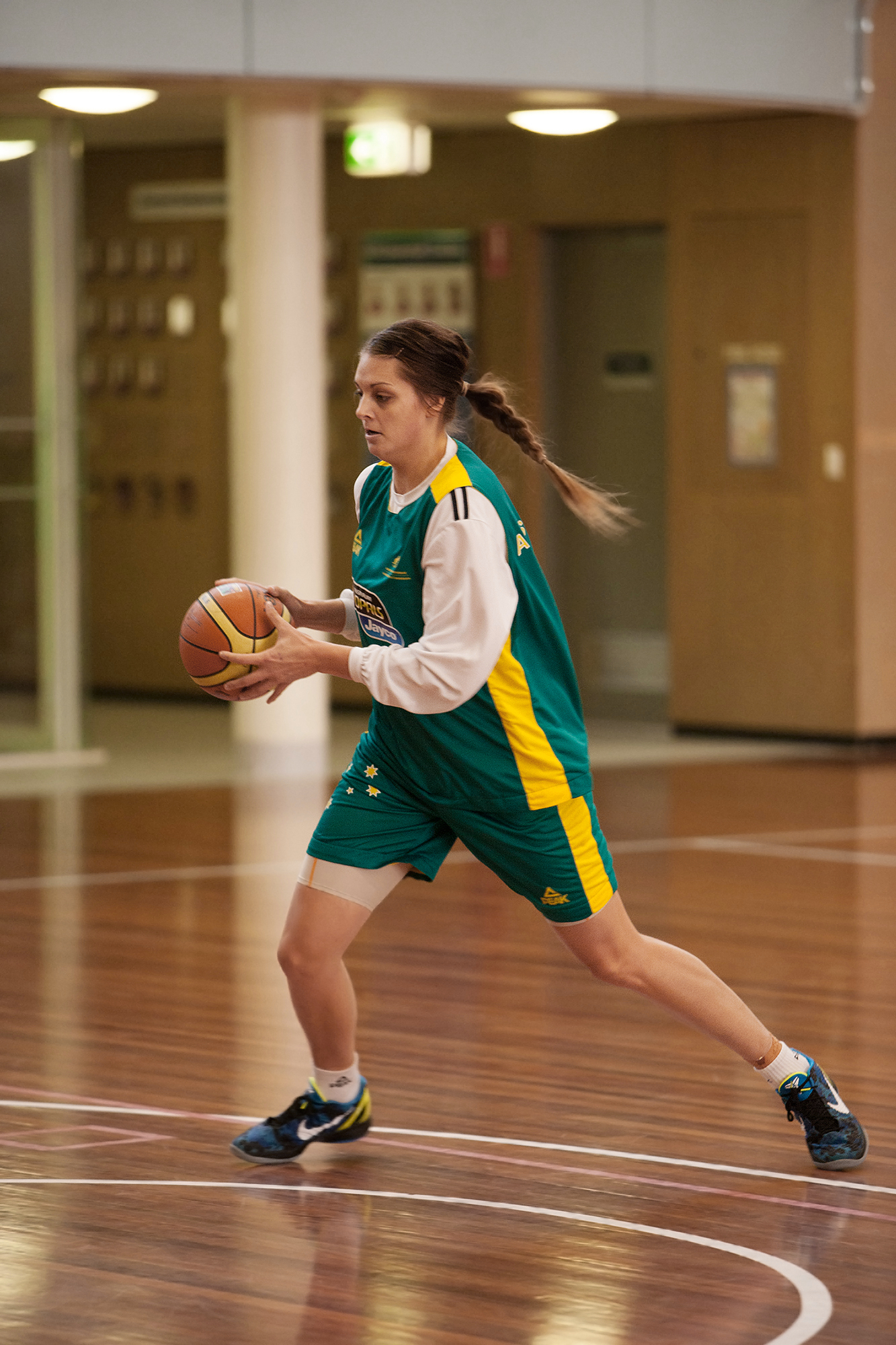 Member of the Opals, Canberra, Australia.